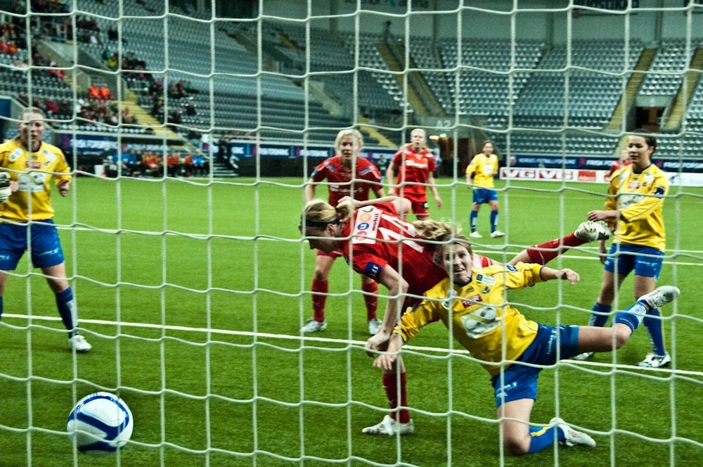 Ada Finskud scores for Røa against Trondheims-Ørn in the Norwegian cup final 2010.